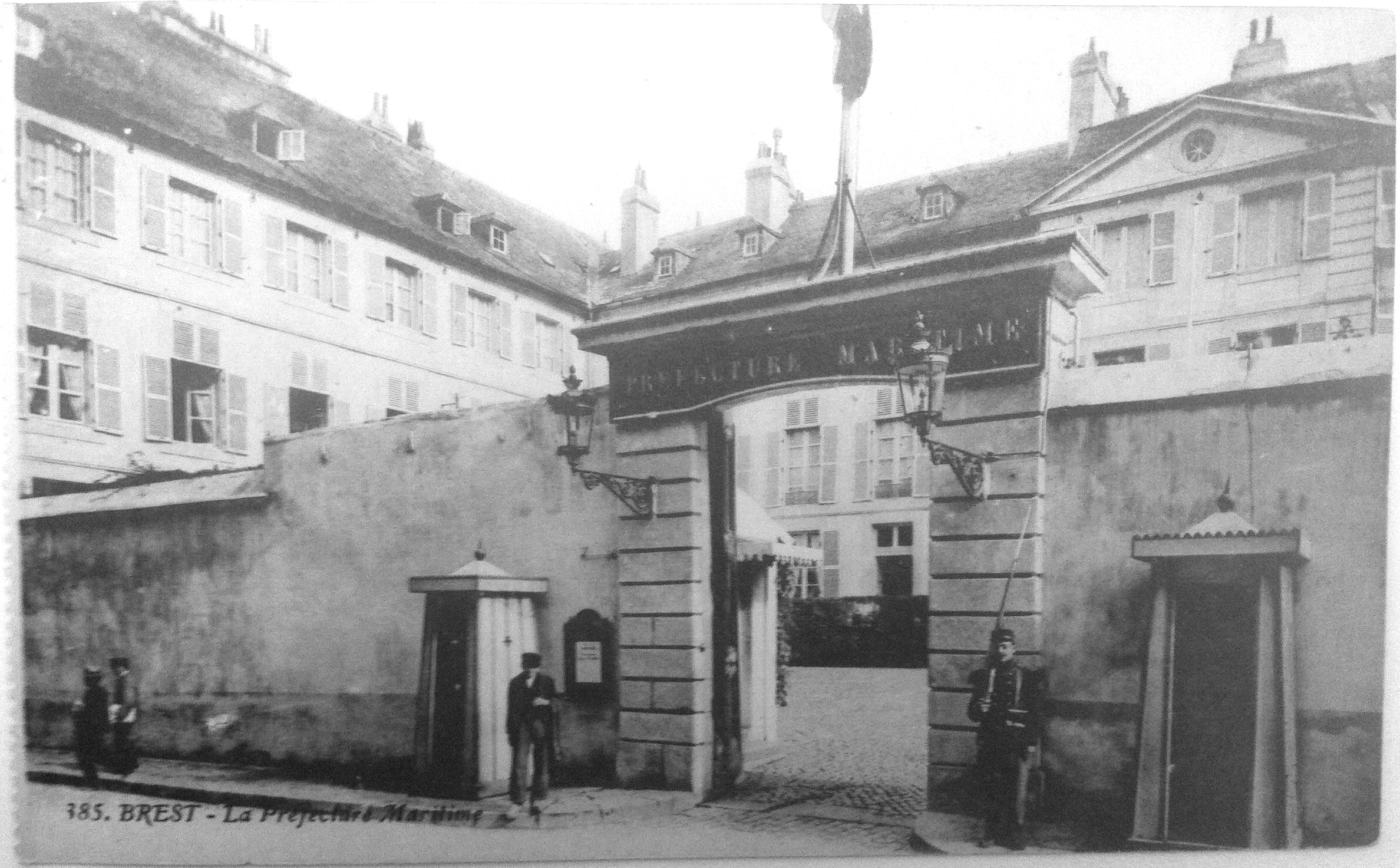 Hôtel Saint-Pierre in the Rue de Siam in Brest, France, at the turn of the 19th century